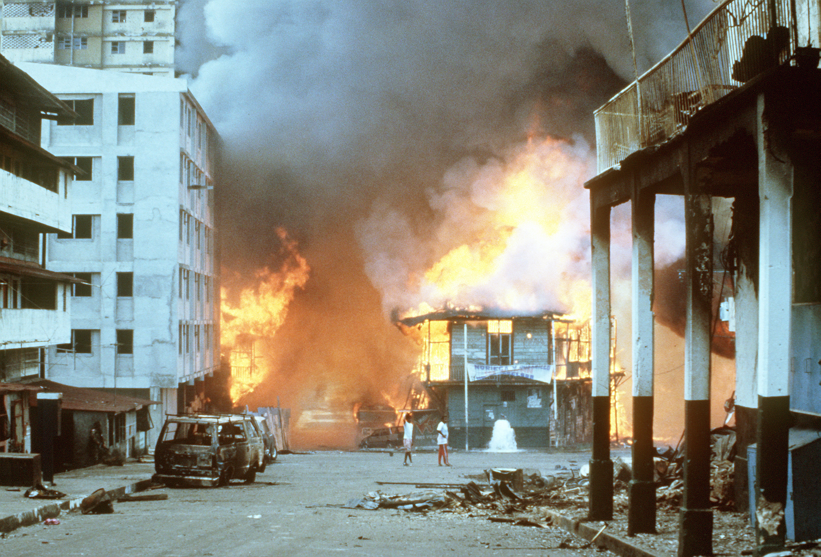 Flames engulf a building following the outbreak of hostilities between the Panamanian Defense Force and U.S. forces during Operation Just Cause.